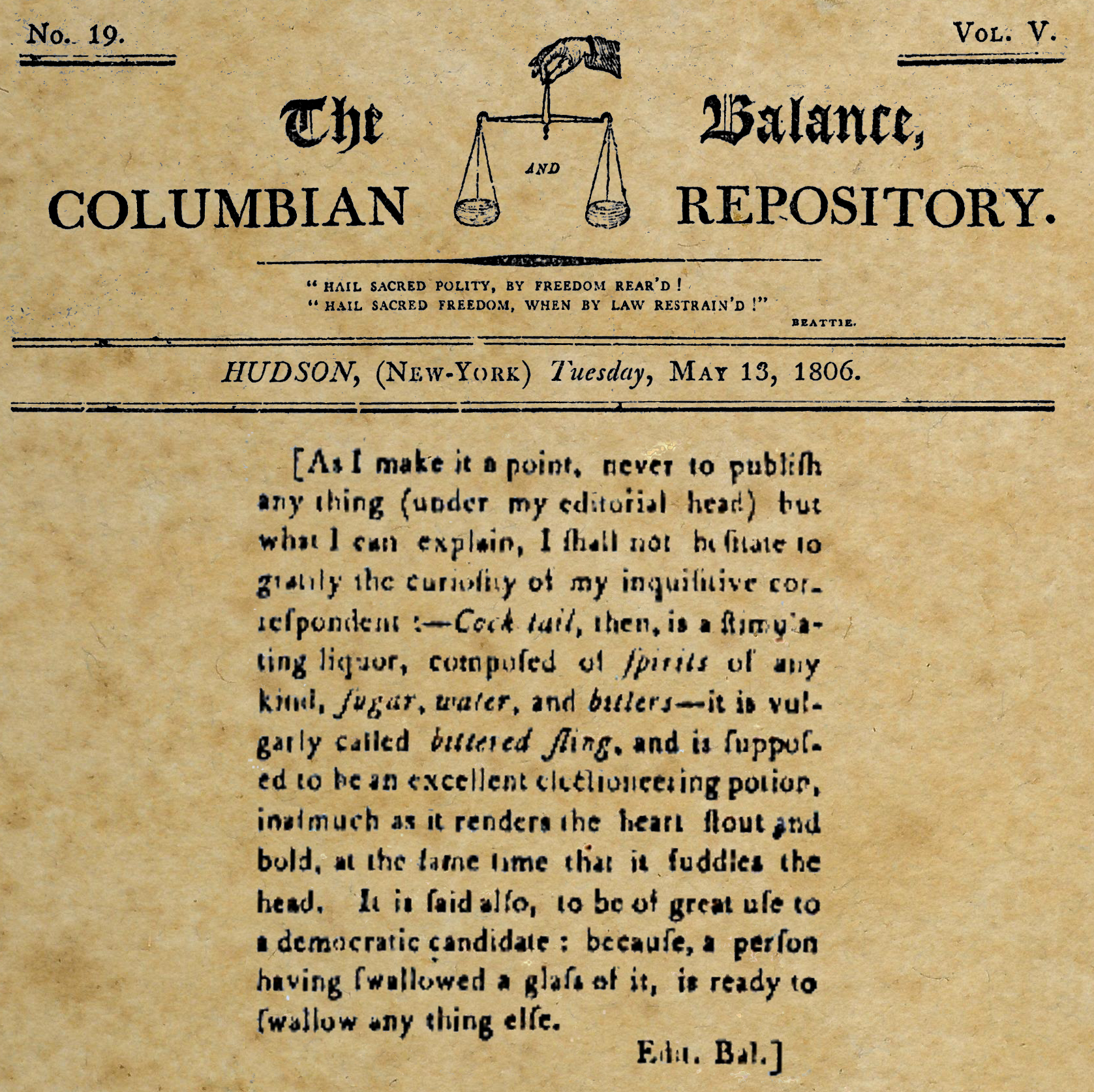 Masthead and extract from The Columbian Balance and Repository, 13 May, 1806, with the first definition of a Cocktail.